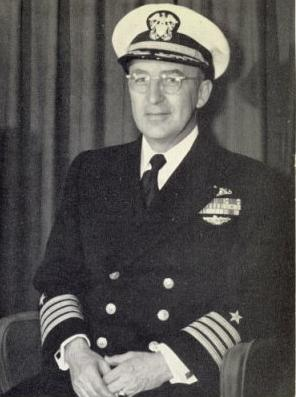 Captain Lawrence R. Daspit, USN, commanding officer - USS Los Angeles (CA-135) circa 1952